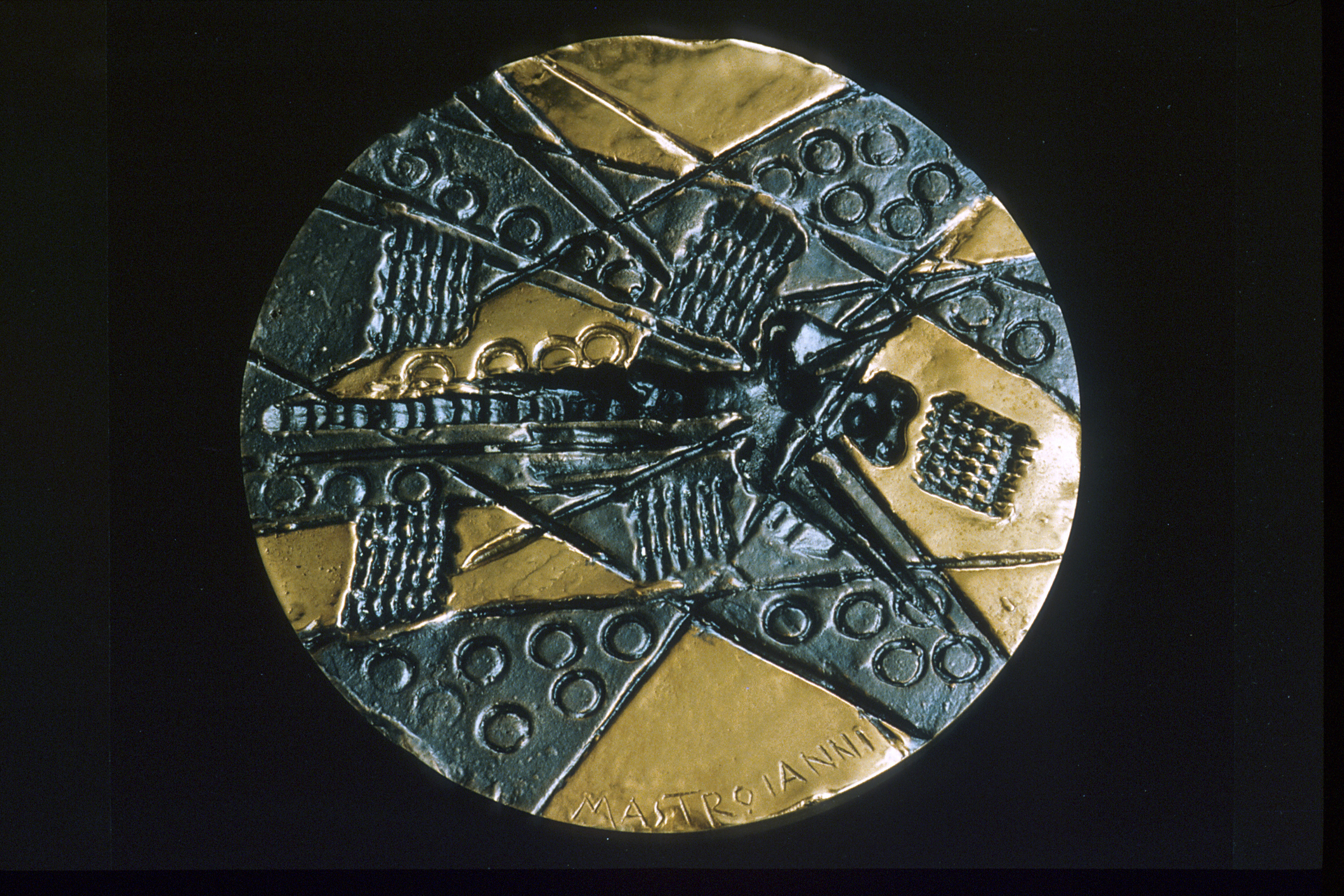 Title Pierluigi Nervi International Award For Cancer Research Description Several views of the plaque of the Pierluigi Nervi International Award for Cancer Research. Dr. Vincent Devita received this award on May 15, 1985. Topics/Categories Awards Type Color, Photo Source National Cancer Institute